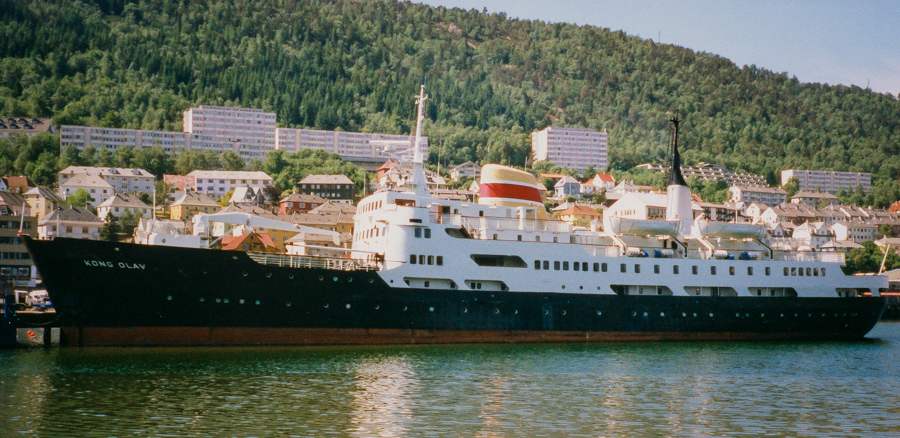 "Kong Olav" in Bergen in 1997, after the spell at Hurtigruten.